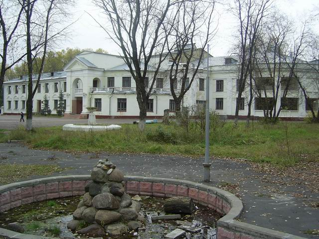 Belye Berega. The cultural centre